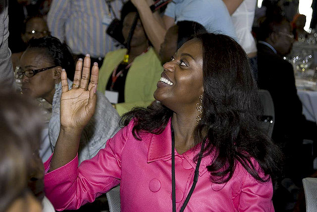 Ana Paula dos Santos, wife of Angolan president José Eduardo dos Santos